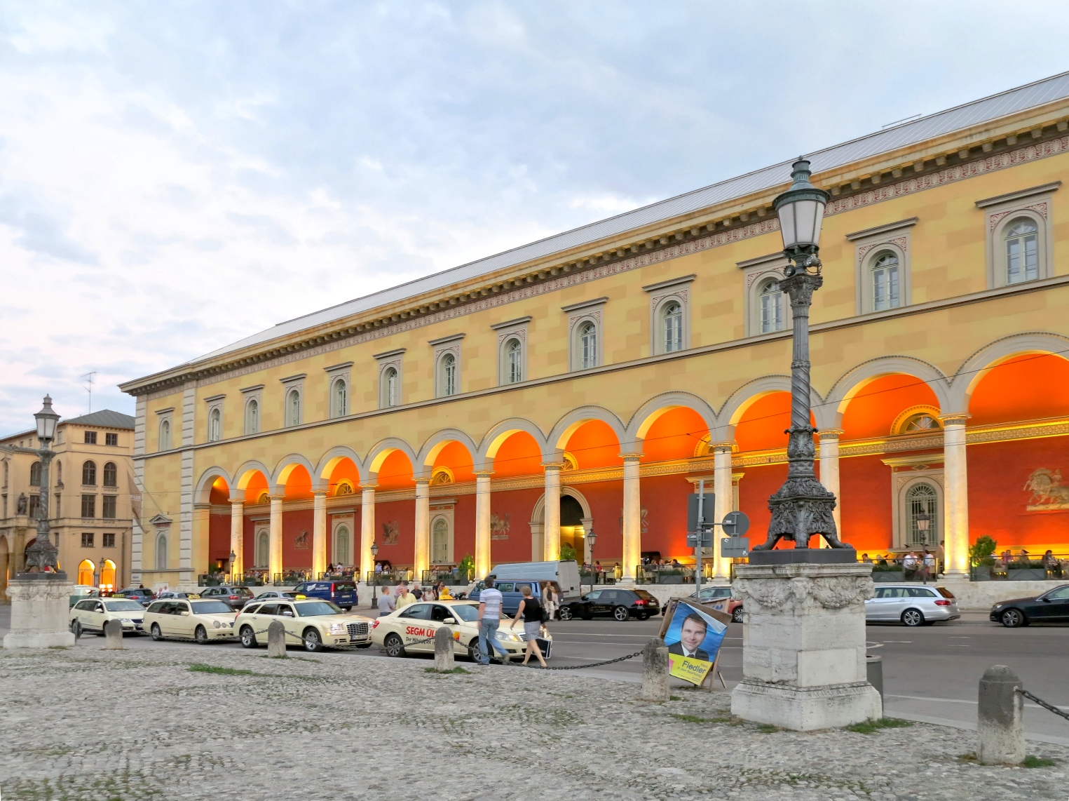 Munich, Street "Maximilianstr., "Palais an der Oper", former "Palais Toerring-Jettenbach" / Post Office of Residence